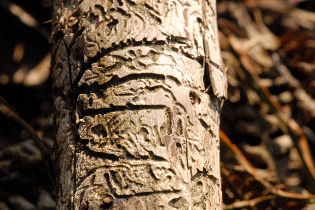 Pityogenes chalcographus from Commanster, Belgian High Ardennes .